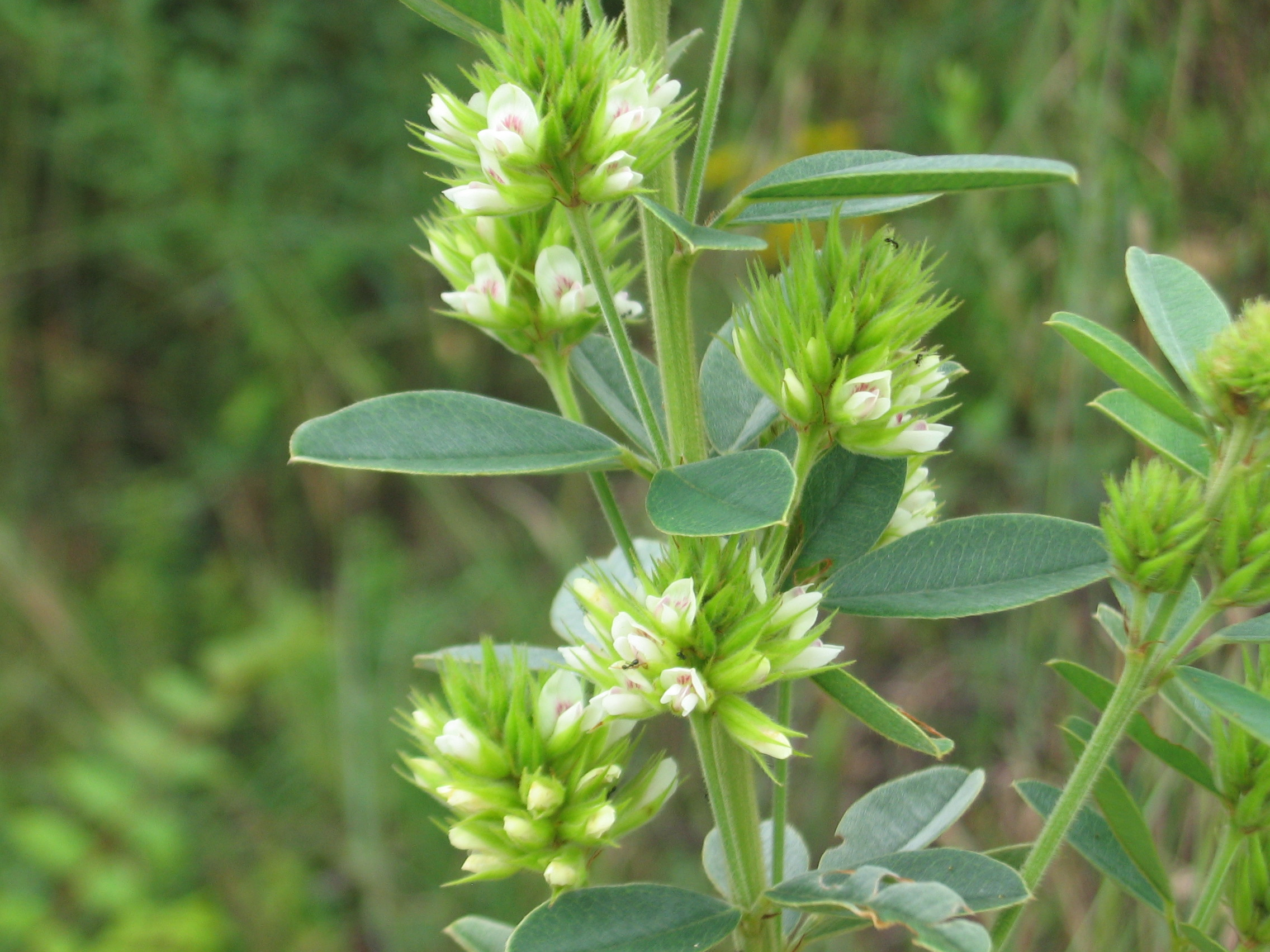 Photo of Lespedeza capitata (Roundhead Lespedeza) in bloom.